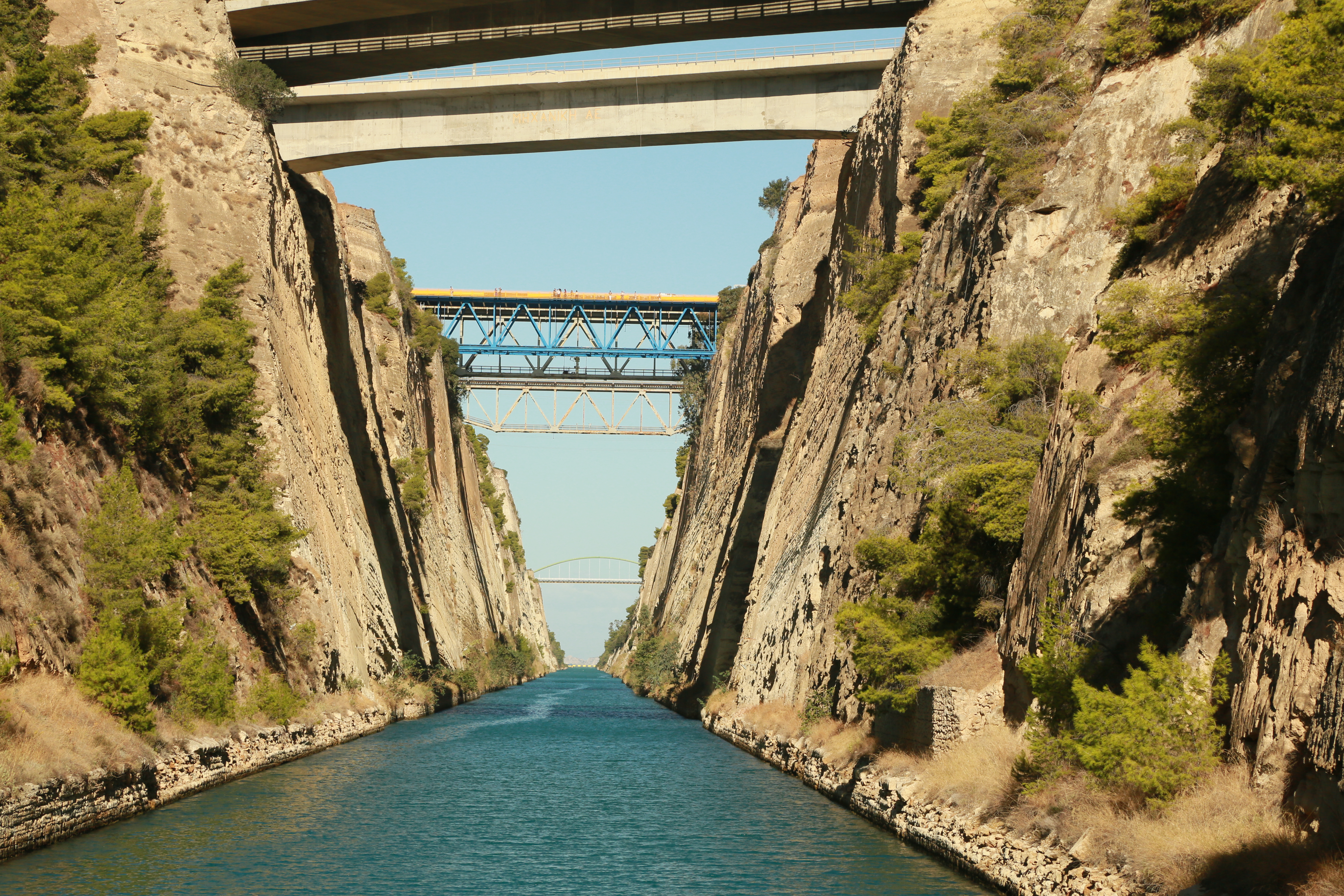 Corinth Canal, Greece